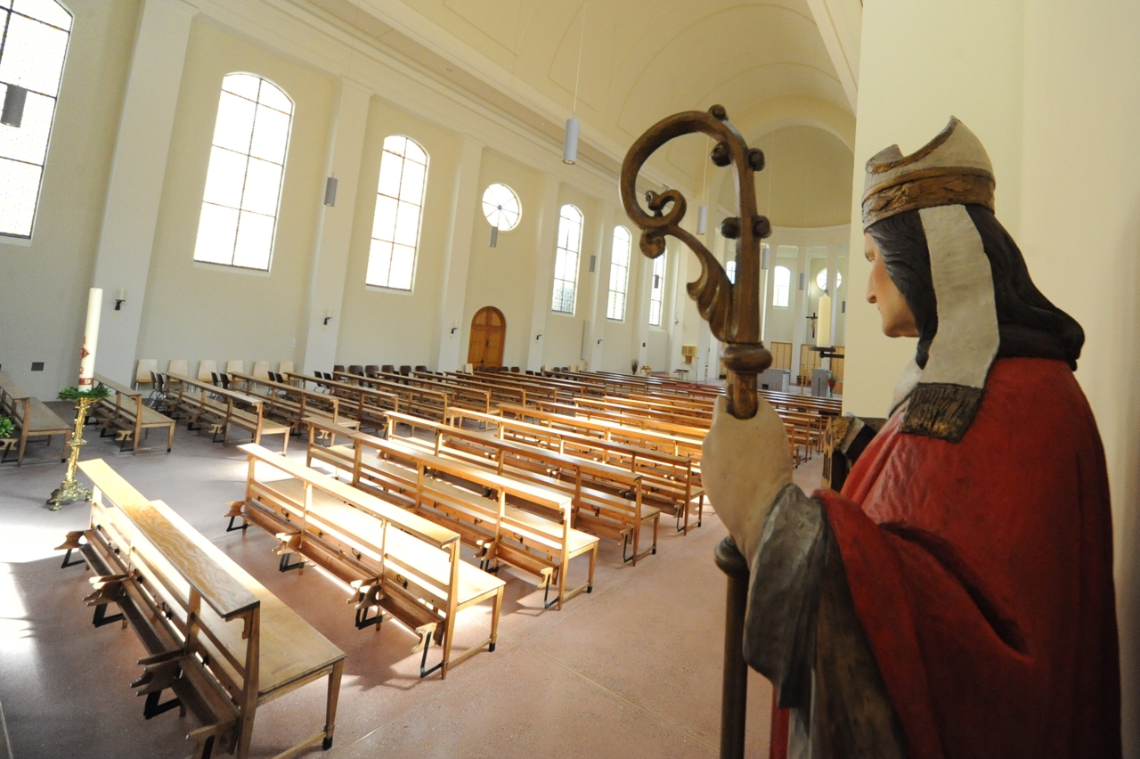 This is a photograph of an architectural monument.